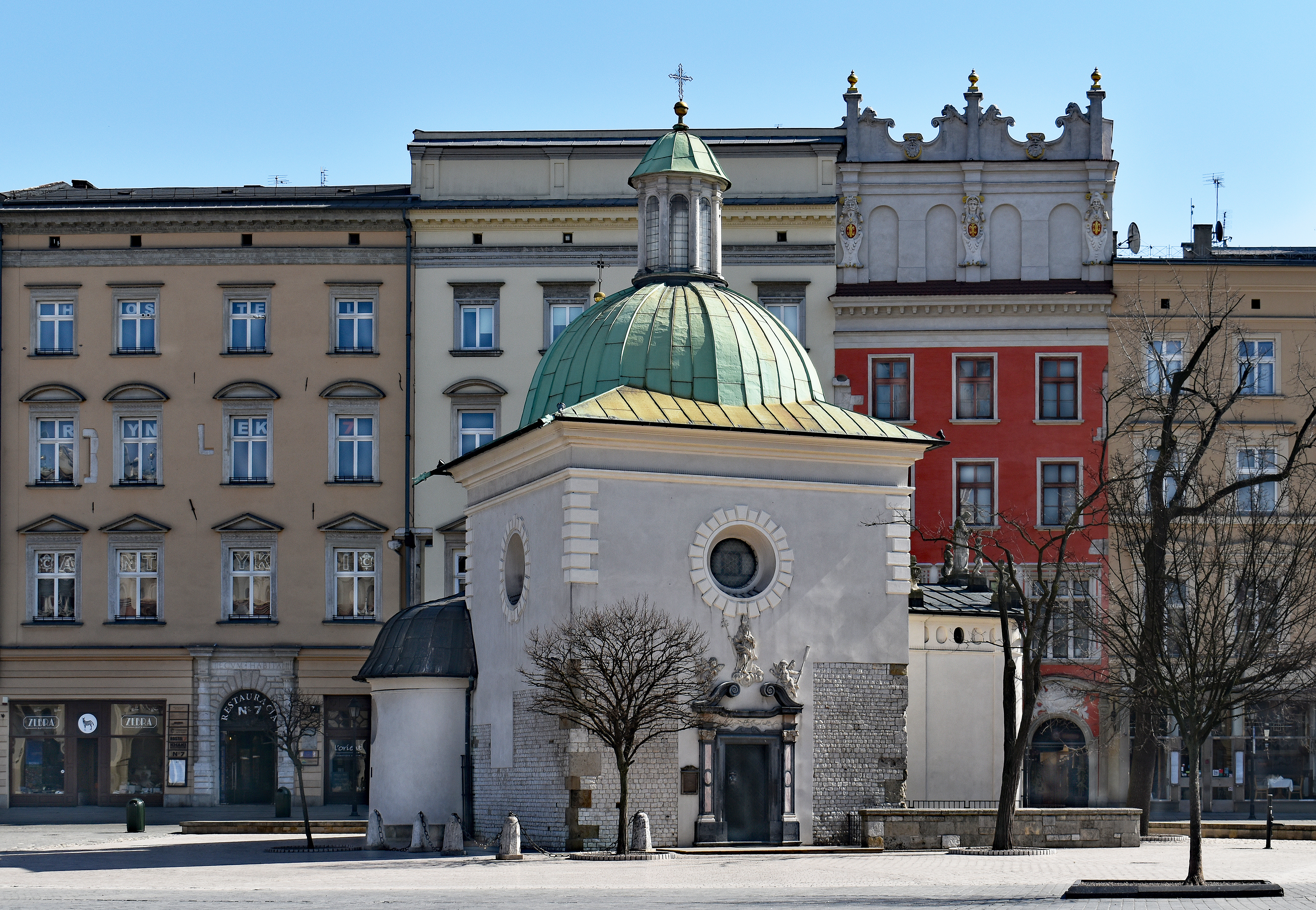 Church of St. Adalbert (Wojciech), 2 Main Market square, Old Town, Krakow, Poland